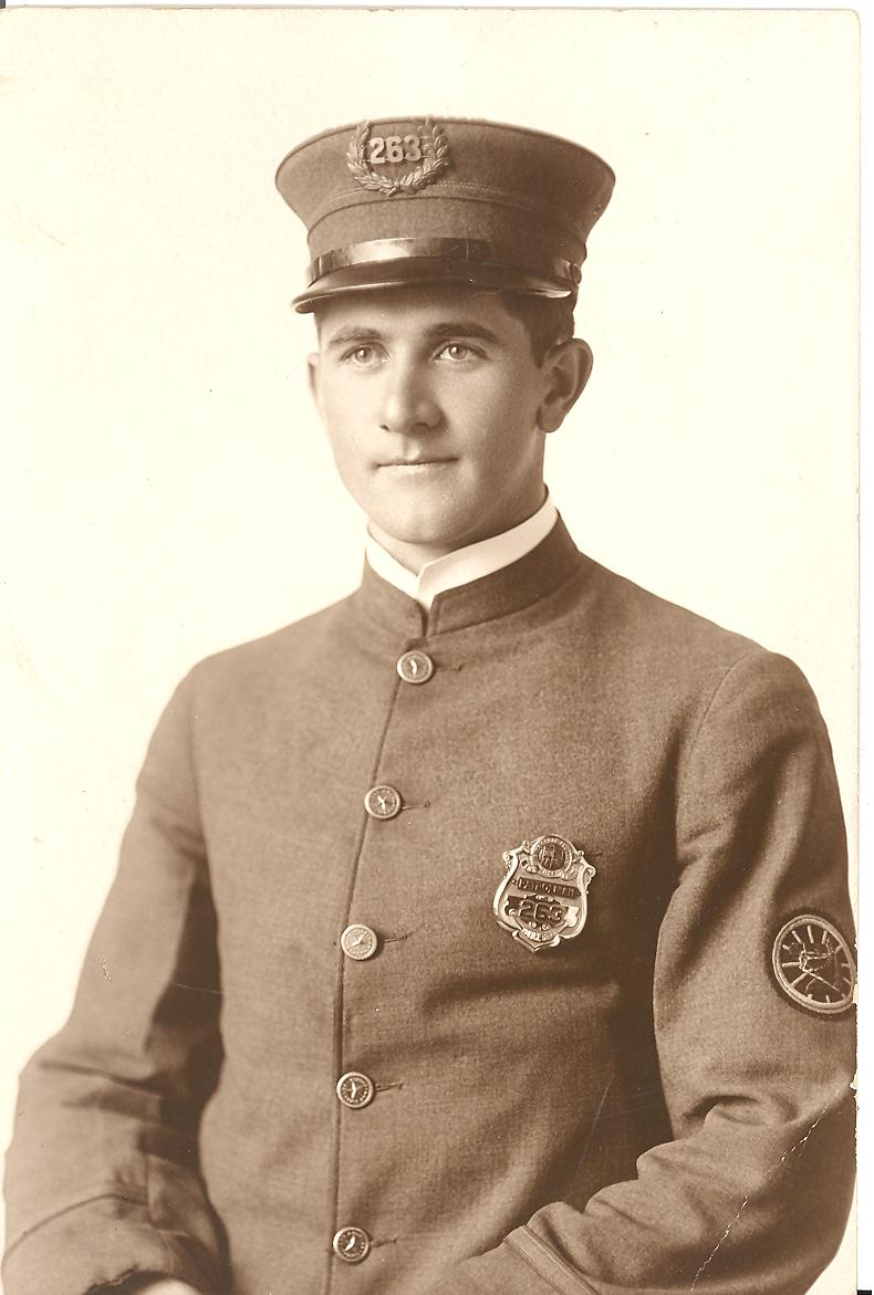 LAPD Policeman Roy E Steckel